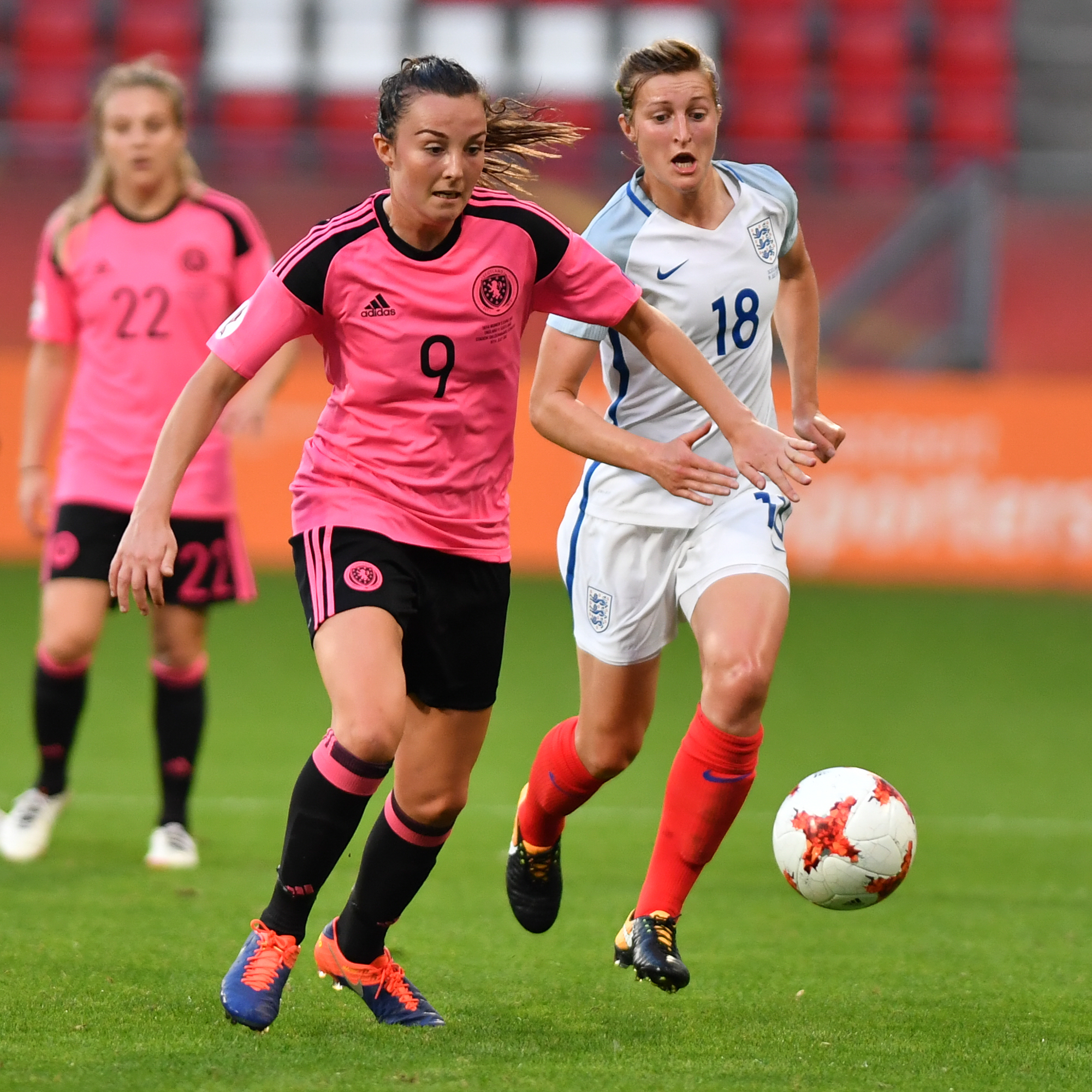 Utrecht, Netherlands, sports, soccer, UEFA Women's Euro 2017 - England vs Scotland. Image shows